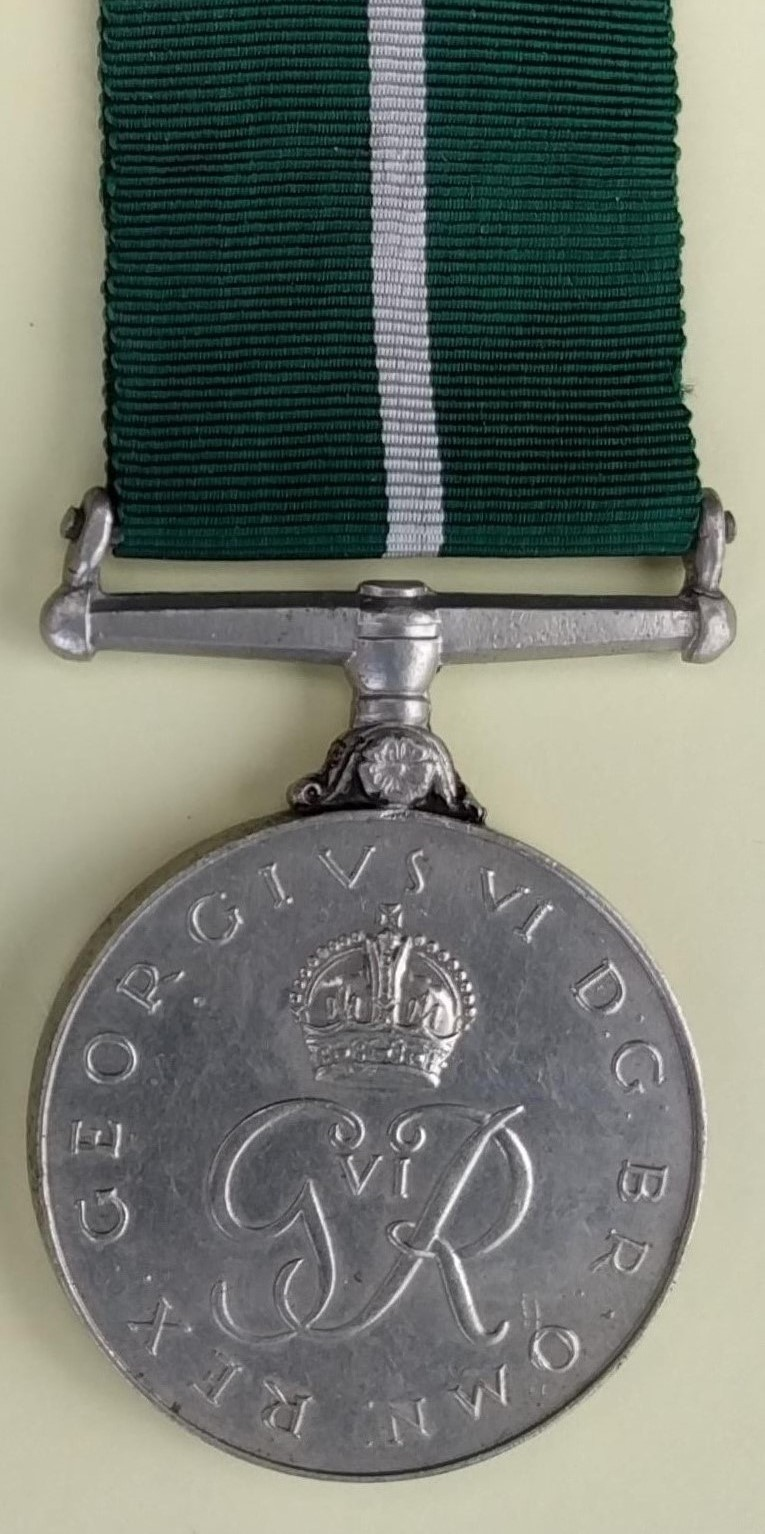 Pakistani medal awarded to commemorate independence in 1947. Toː 3528728 Sepoy Ghulam Rasul 13th Frontier Force Rifles